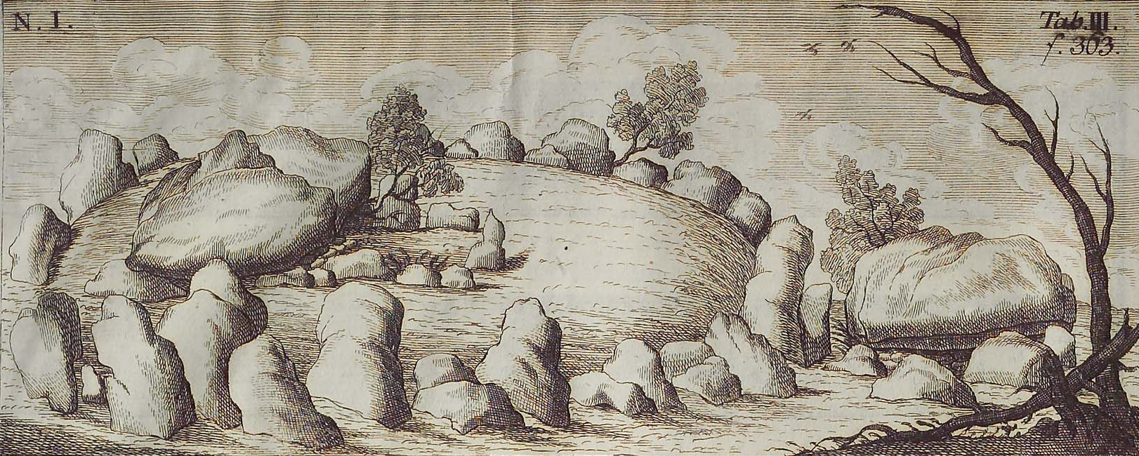 Now destroyed Dolmen at Ballerstedt, depicted in Johann Christoph Bekmann, Bernhard Ludwig Bekmann: Historische Beschreibung der Chur und Mark Brandenburg nach ihrem Ursprung, Einwohnern, Natürlichen Beschaffenheit, Gewässer, Landschaften, Stäten, Geistlichen Stiftern etc. [...]. Vol. 1, Berlin 1751